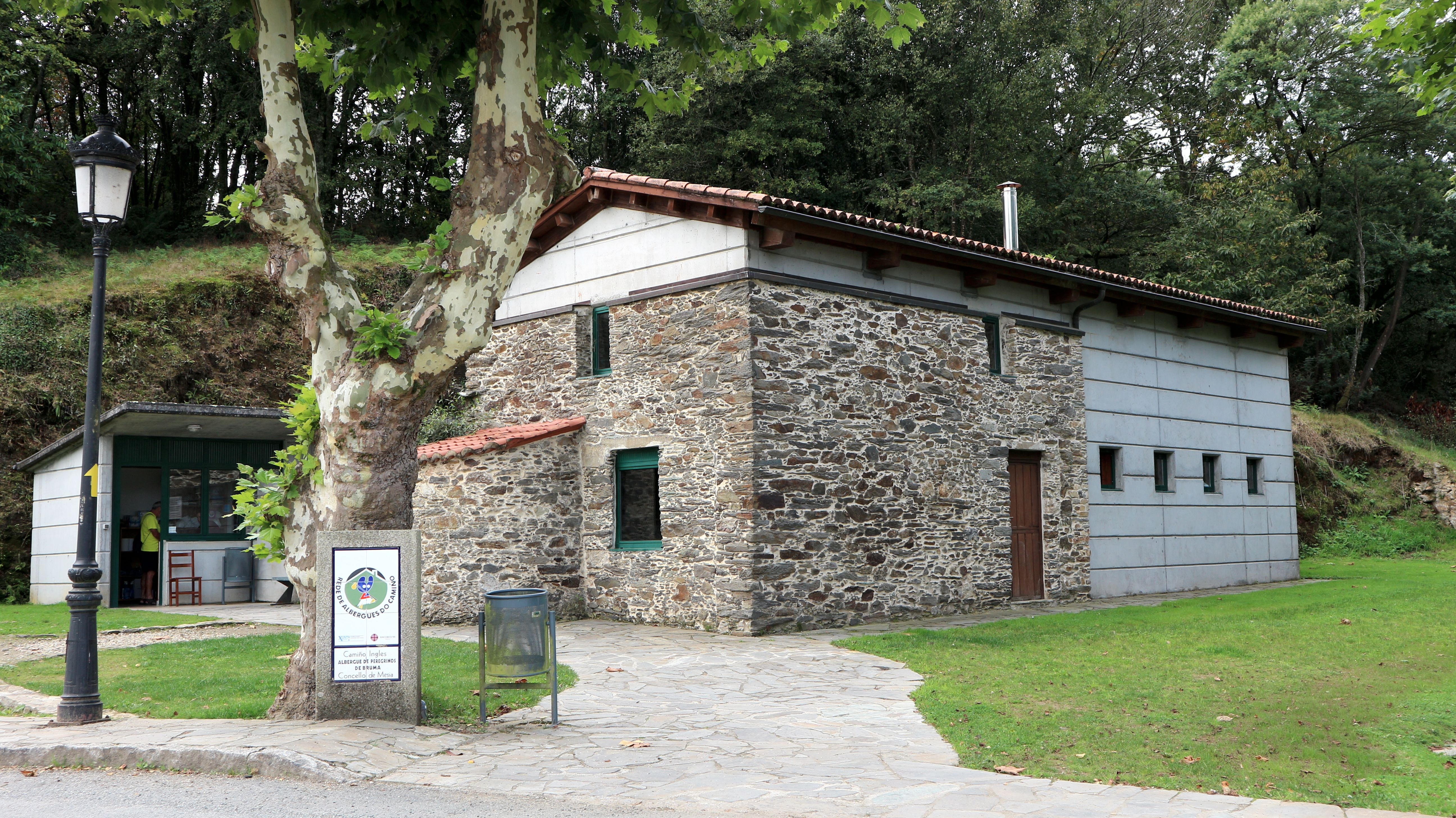 Antigo hopital e arestora albergue de peregrinos no Hospital, San Lourenzo de Bruma, Mesía (A Coruña).